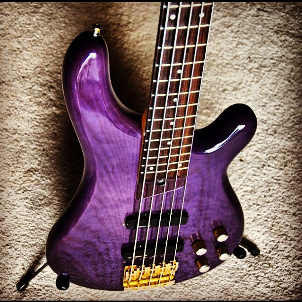 Fernandes APB-5 5 string bass body